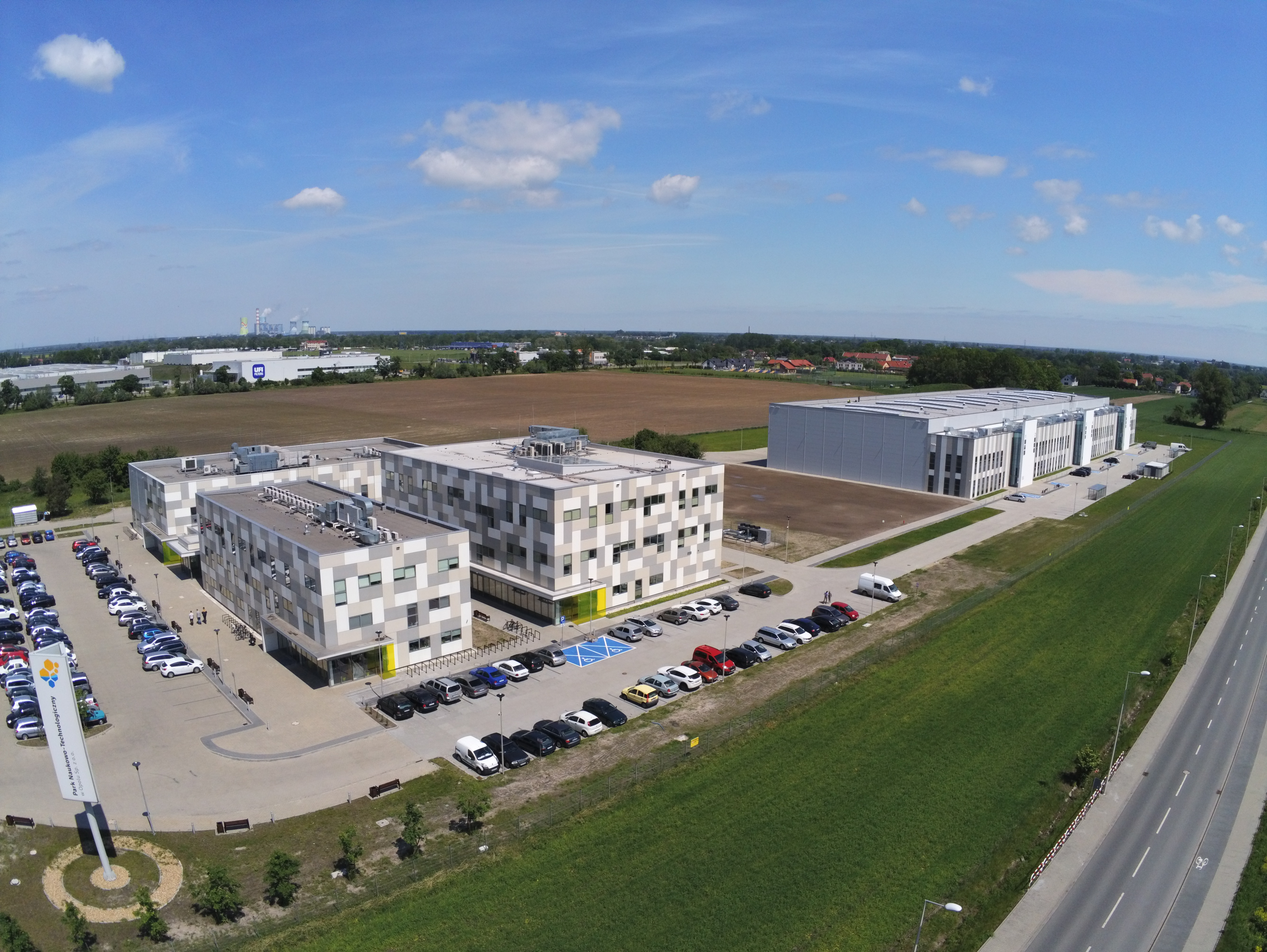 Science and Technology Park in Opole